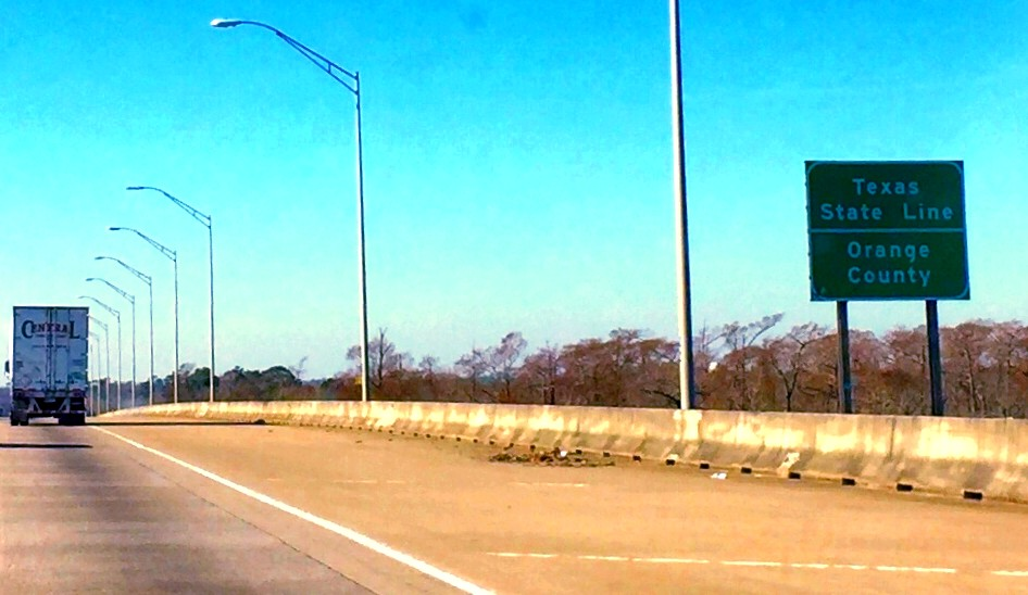 Orange County, Texas county line / Texas state line with Louisiana at the Interstate 10 bridge over the Sabine River. View from the westbound lane of Interstate 10, looking southwest. This photograph was taken with an iPhone 6 mobile phone and edited (color balance, saturation, brightness and contrast) using ArcSoft Photostudio 5.5